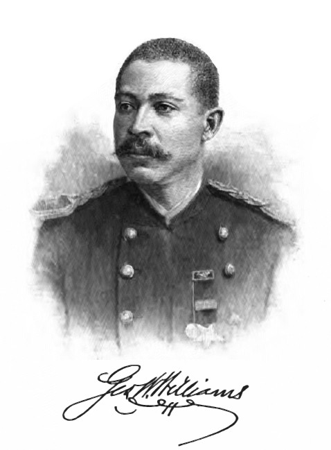 George Washington Williams - American soldier, minister, politician and historian. Author of A History of Negro Troops in the War of Rebellion and The History of the Negro Race in America 1619–1880.